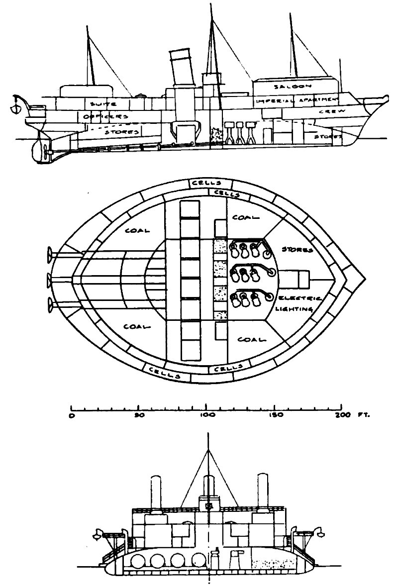 Three dimensions of the Livadia as presented in the 1881 Transactions of the Royal Institution of Naval Architects